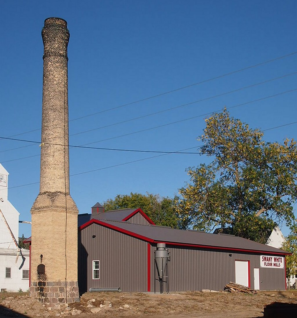 Swany White Flour Mills: rear view of the mill's original powerhouse smokestack (left), a modern building constructed to replace the 1898 mill lost in a 2011 fire (center), and the 1900 miller's house (partially visible on right). Viewed from the southwest.